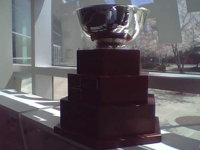 The Kal-Tire Western Conference Championship Cup